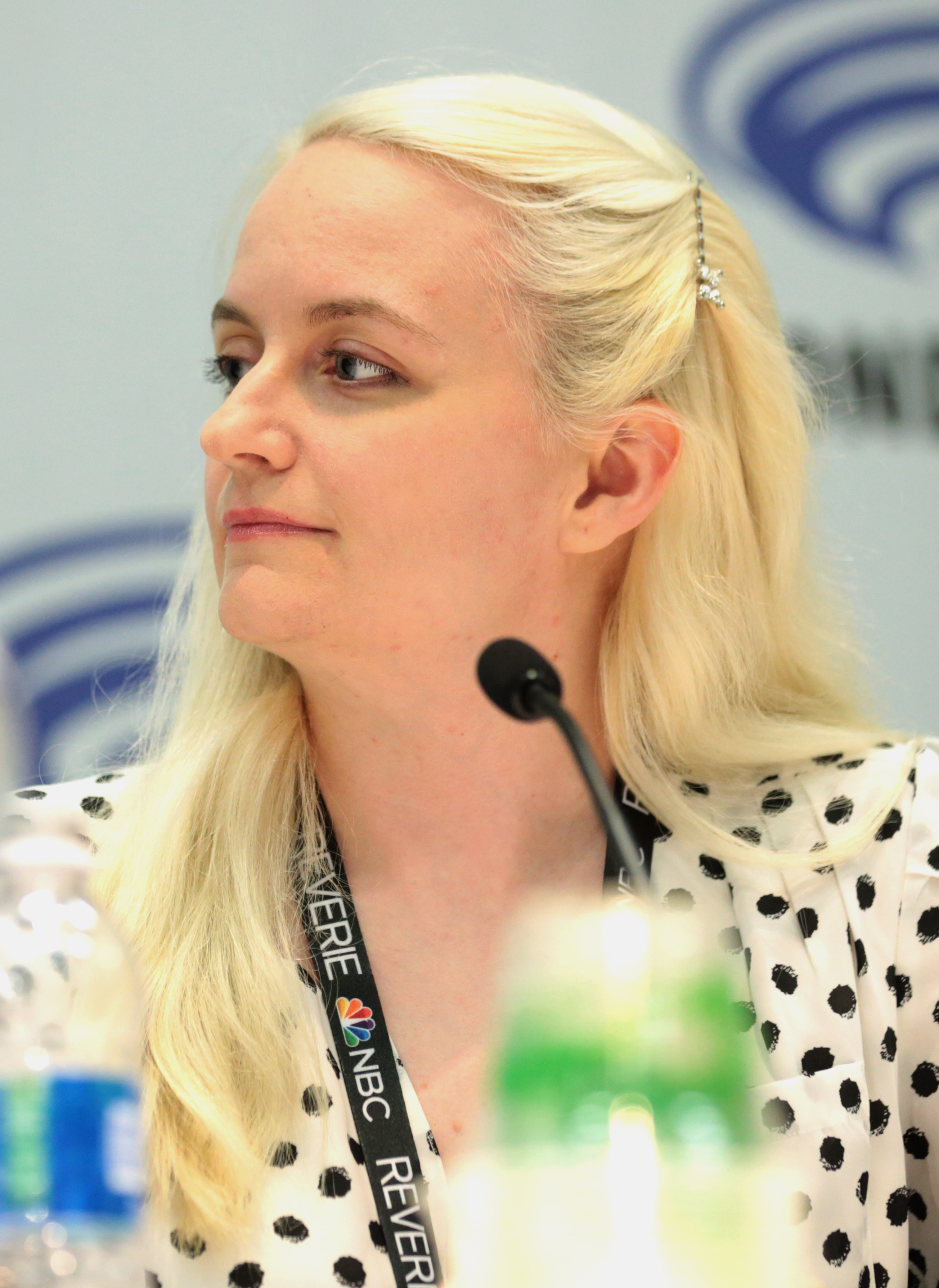 Mishell Baker speaking at the 2018 WonderCon in Anaheim, California.